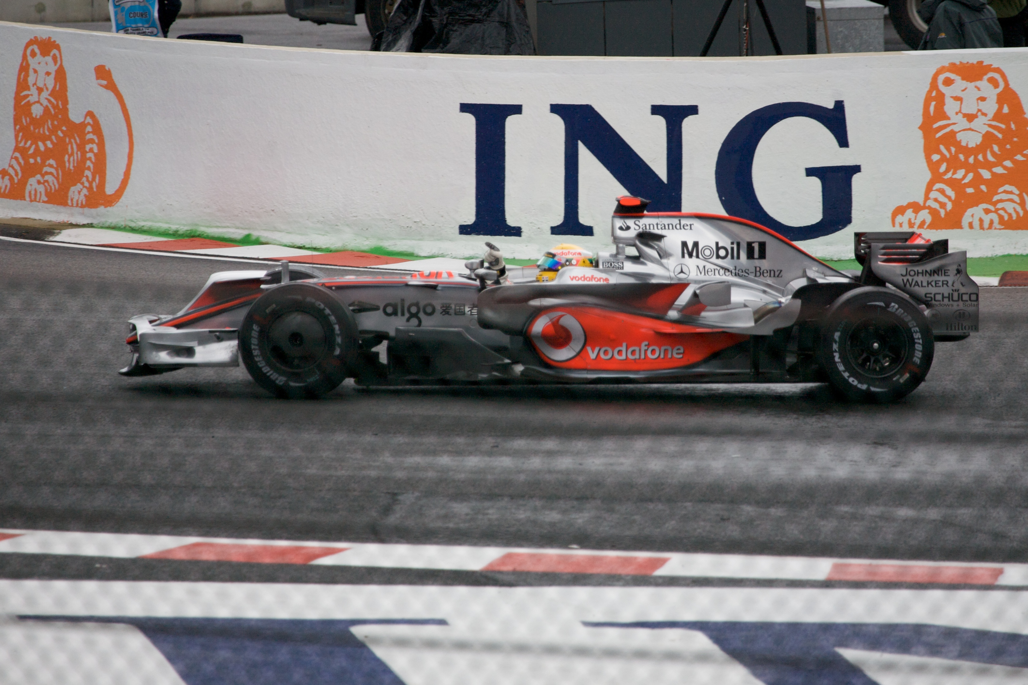 Lewis Hamilton (McLaren) celebrates his on-track win at the 2008 Belgian Grand Prix.